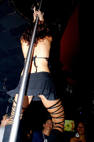 Exotic dancer on stage.